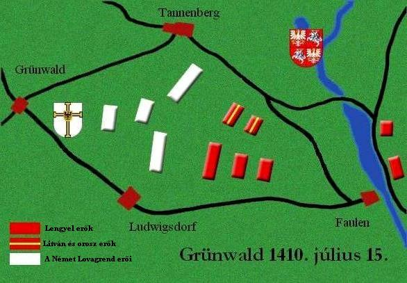 Map of the Battle of Grunwald (Hungarian variant)